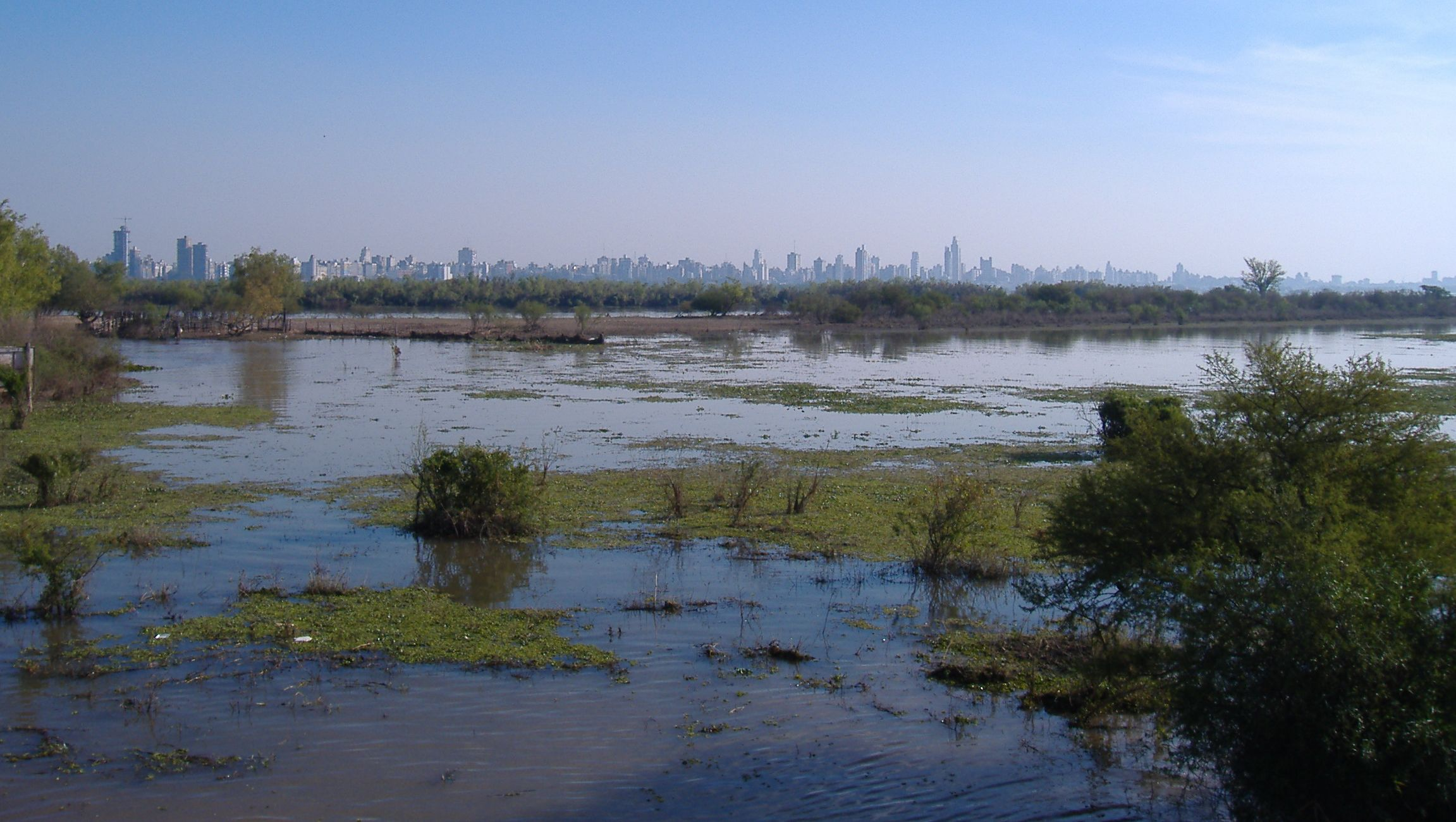 Low-lying terrain and wild vegetation on an island of the Paraná River's delta/wetlands/floodplain in Argentina; the city in the background is Rosario, Santa Fe Province, but the islands are on the jurisdiction of Victoria, Entre Ríos.